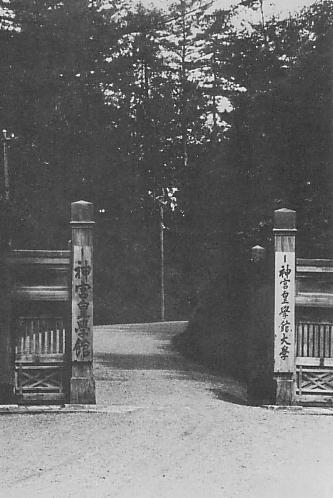 Jingu-Kogakkan University (present-day "Kogakkan University")